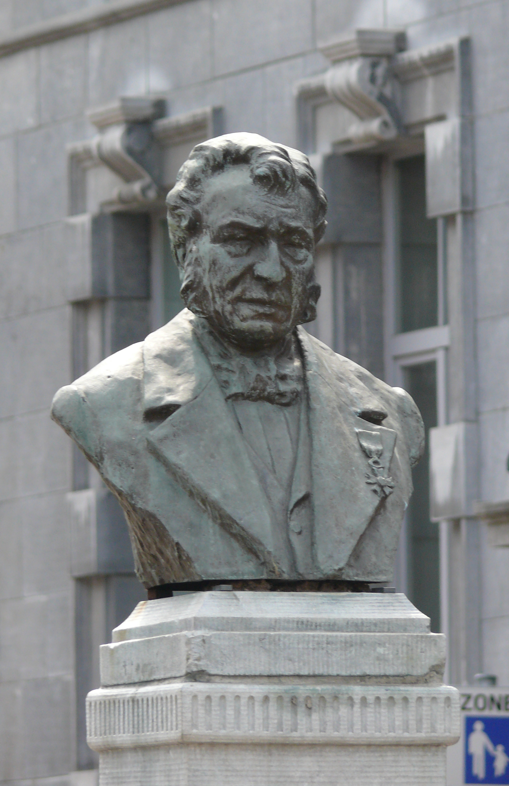 Bust of Nicolas Bosret (5 March 1799 – 18 November 1876), a blind composer and organist at the St. Loup church in Namur.